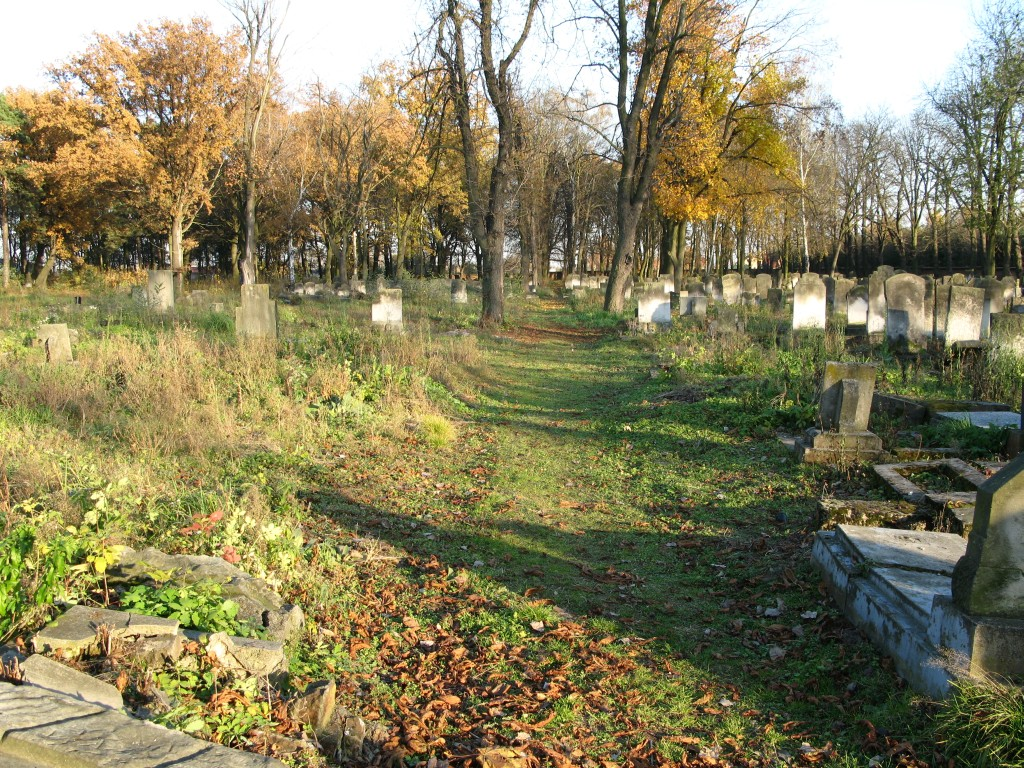 Jewish Cemetery in Piotrków Trybunalski